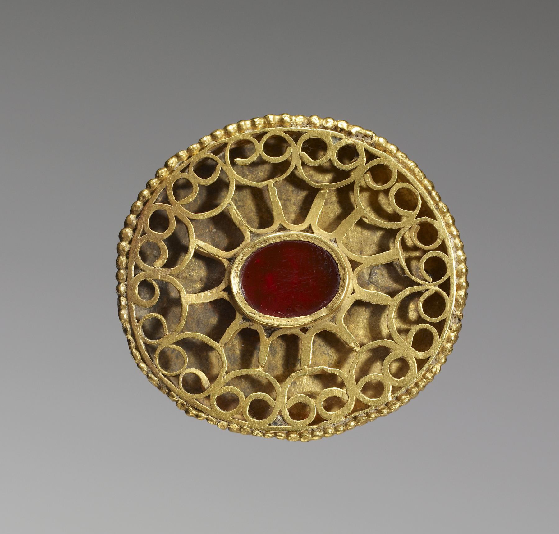 This is an oval openwork fibula set with a carnelian and decorated with a geometric pattern of gold wire. The openwork cells were likely filled with stone insets originally. The gold beading along the edge is characteristic of Hunnish craftsmanship.